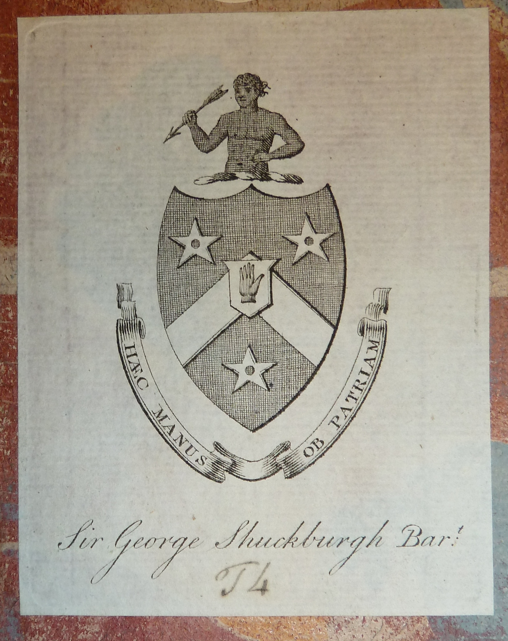 Armorial bookplate (with ms. shelf-mark "T4") of Sir George Augustus William Shuckburgh-Evelyn, 6th Baronet (1751-1804), English politician (MP for Warwickshire 1780-1804), mathematician and astronomer. The lunar crater Shuckburgh is named after him. A Fellow of the Royal Society, he was the 1798 co-winner (with chemist Charles Hatchett, discoverer of niobium) of the Copley Medal. (Their researches were unrelated.) The book in question is Nicolas de Bonnefons. The French gardiner: instructing how to cultivate all sorts of fruit-trees, and herbs ... written originally in French [by Nicolas de Bonnefons], and now transplanted into English, by John Evelyn ... The third edition illustrated with sculptures. Whereunto is annexed, The English vineyard vindicated by John Rose [or rather, compiled by John Evelyn from material supplied by Rose] ... with a tract of the making and ordering of wines in France [signed: J. Evelyn]. London, Printed by S.S. for Benj. Tooke, 1672.